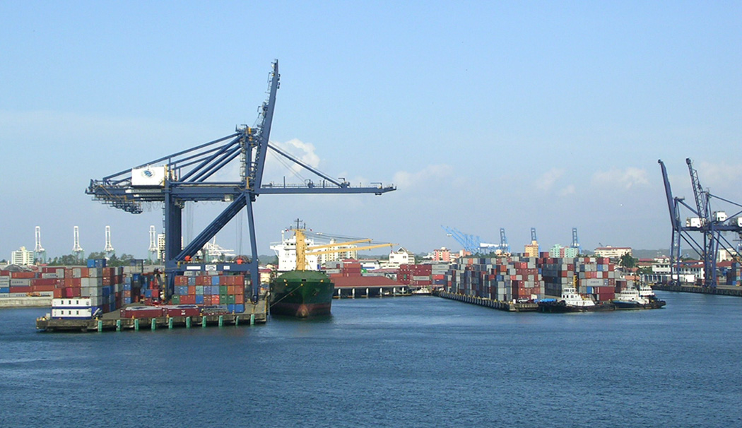 Container port is in the Cristobal area of Colon, Panama.